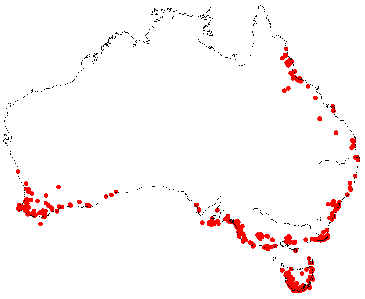 Tetraria capillaris Occurrence data from Australasian Virtual Herbarium downloaded 3 August 2018